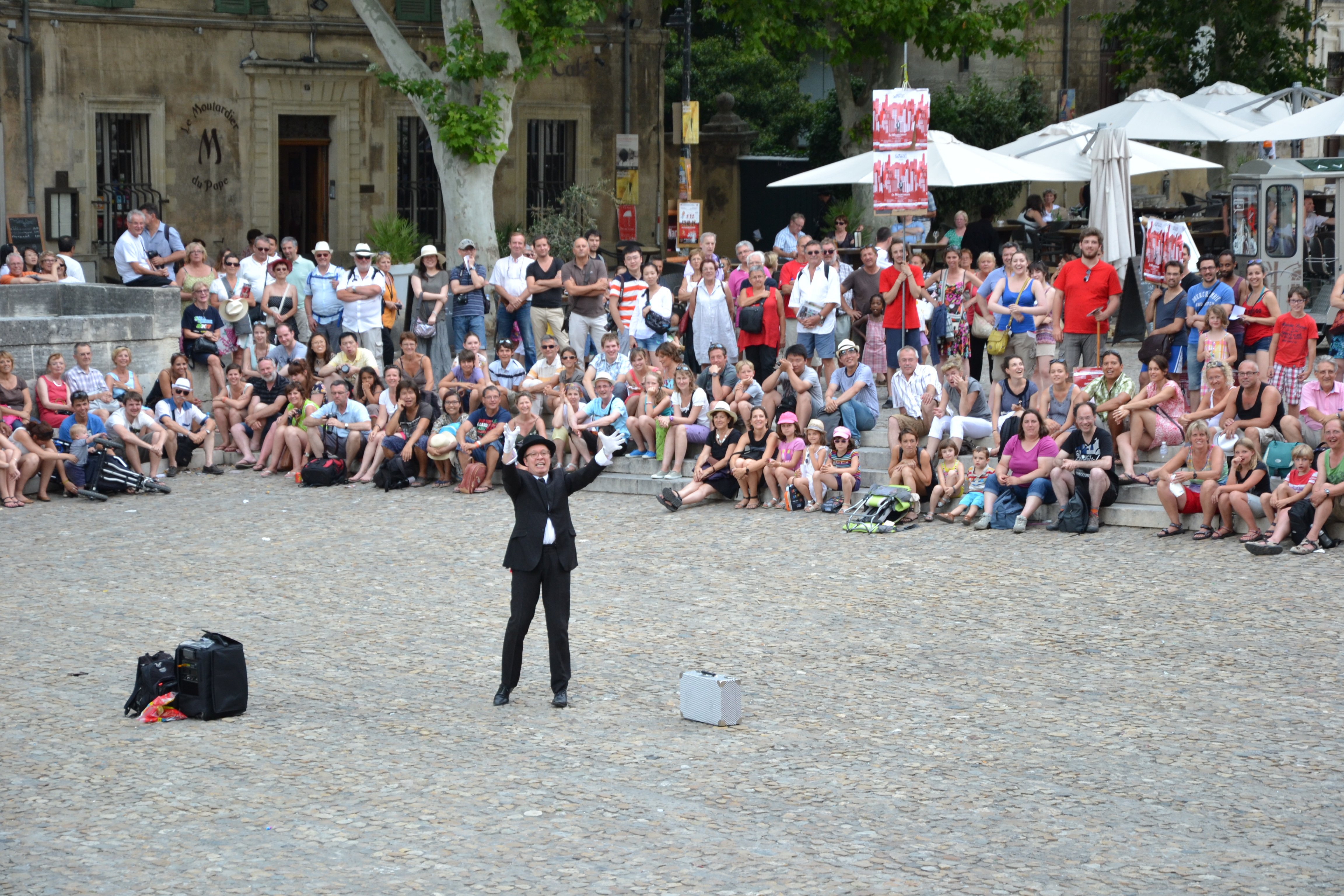 show on the forecourt of the Palace of Avignon, during the festival